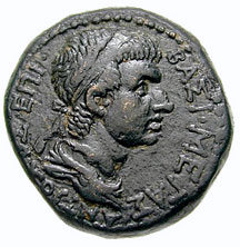 COMMAGENE, Kings of. Antiochos IV. 38-72 AD. Æ 22mm (6.17 gm). BASI MEGAS ANTIOCOS EPI diademed and draped bust right / KOMMAGHNWN, capricorn right, star above, anchor below; all within wreath. RPC I 3855; SNG Copenhagen -; BMC Galatia pg. 107, 14-15; Laffaille 548. Good VF, black patina. ($200)